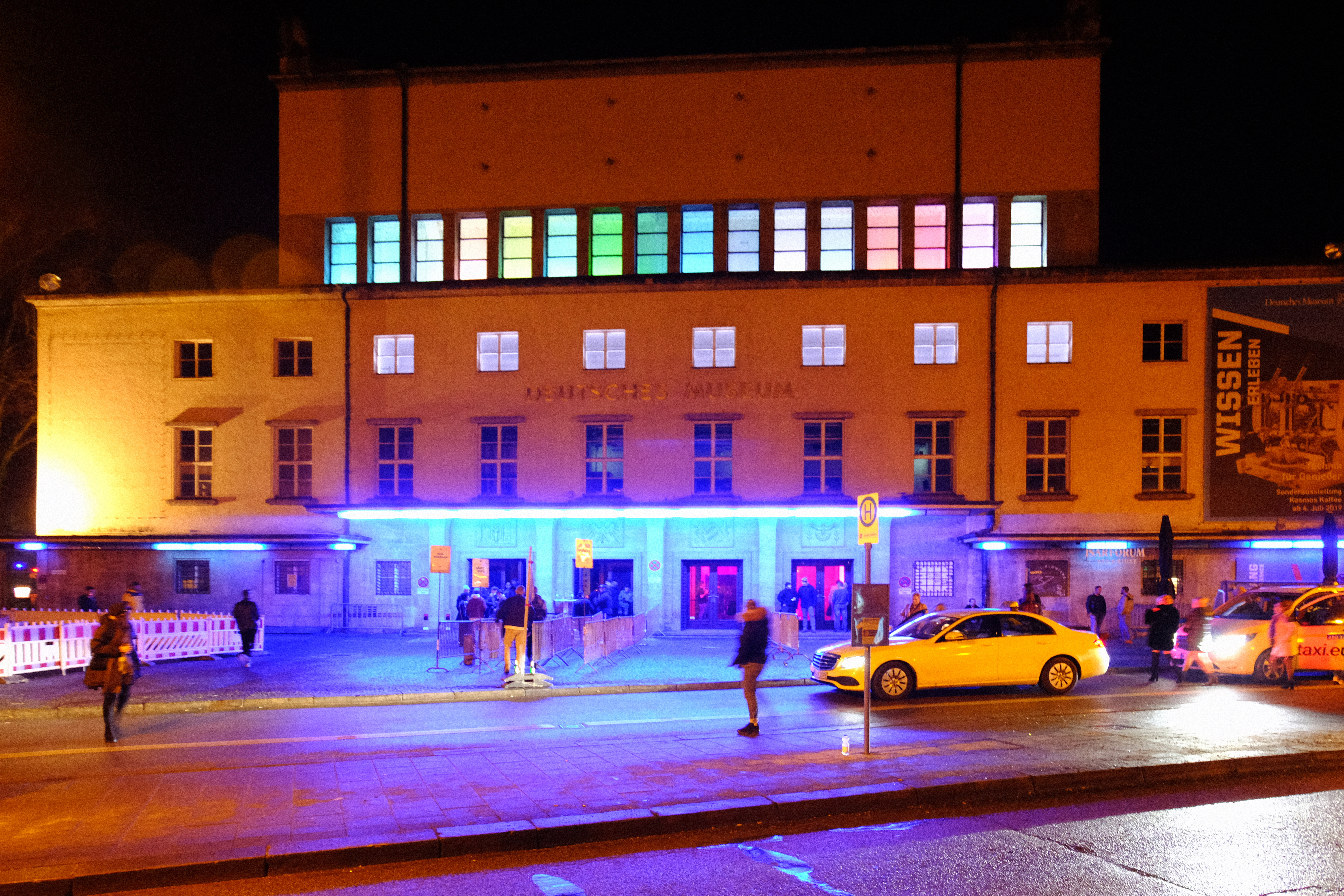 Blitz Club in Munich, view of the entrance (2020)